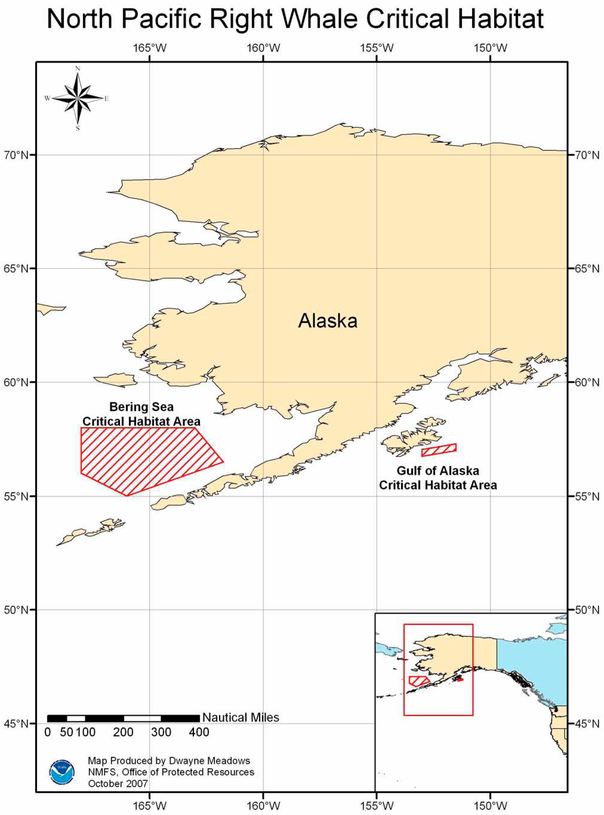 Map of Critical Habitat for the North Pacific Right Whale pursuant to the Endangered Species Act